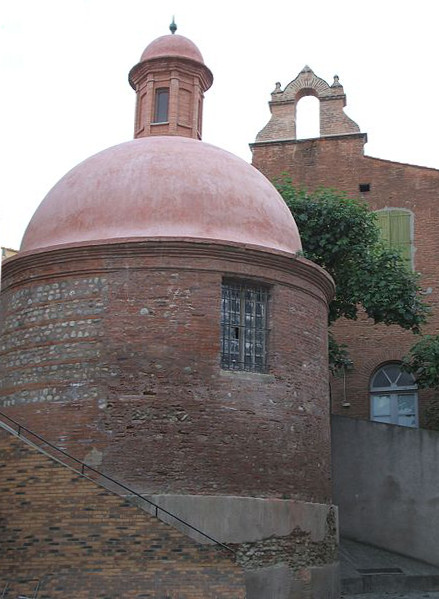 View of the antique amphitheater of Anatomy, university of Perpignan